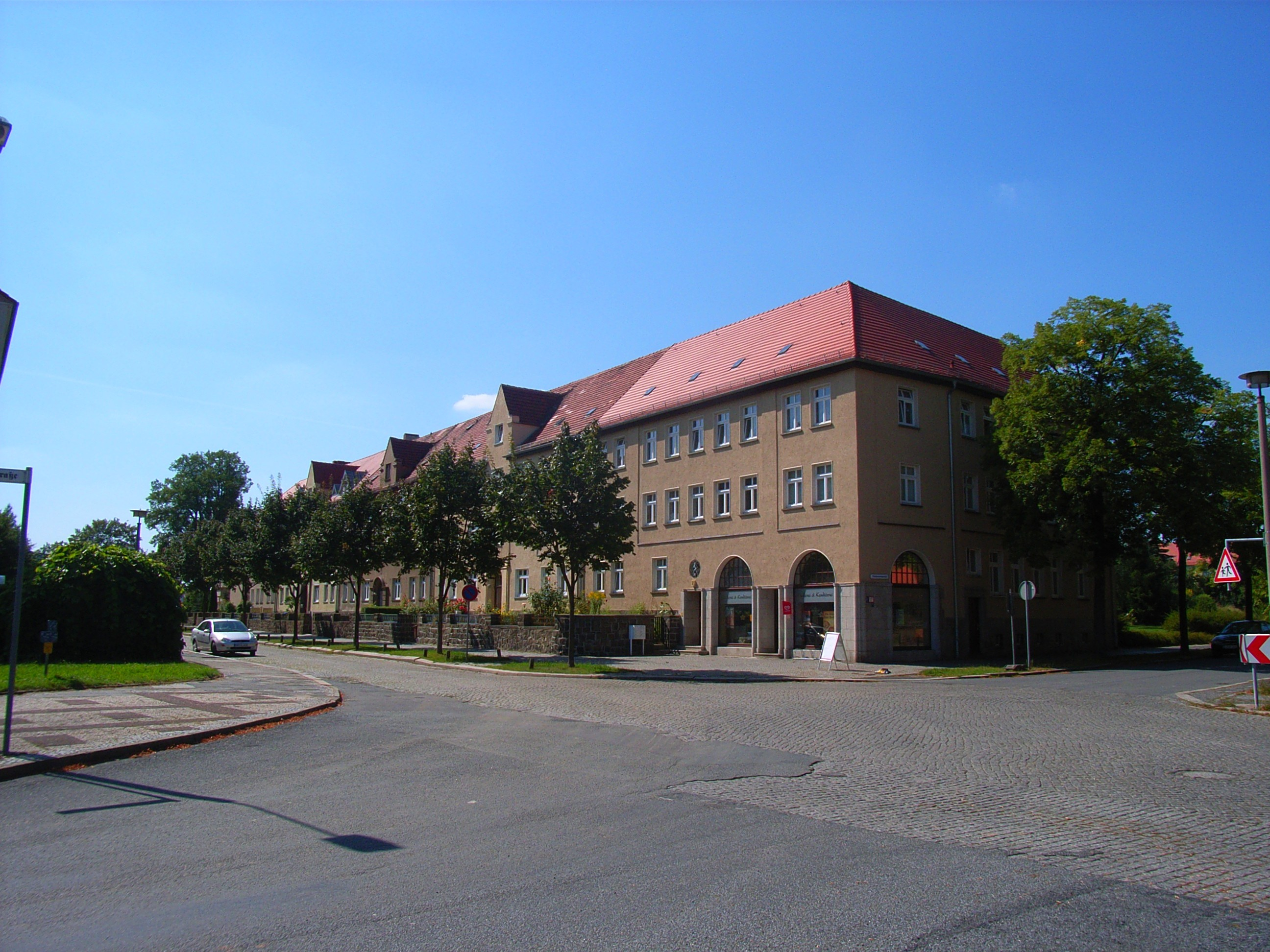 Südstadt in Görlitz